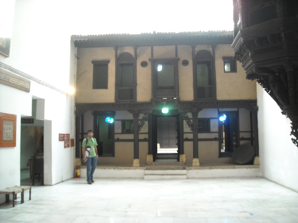 Carved Wooden houses from the palace of nawab of Radhanpur , North Gujrat, late 18th century